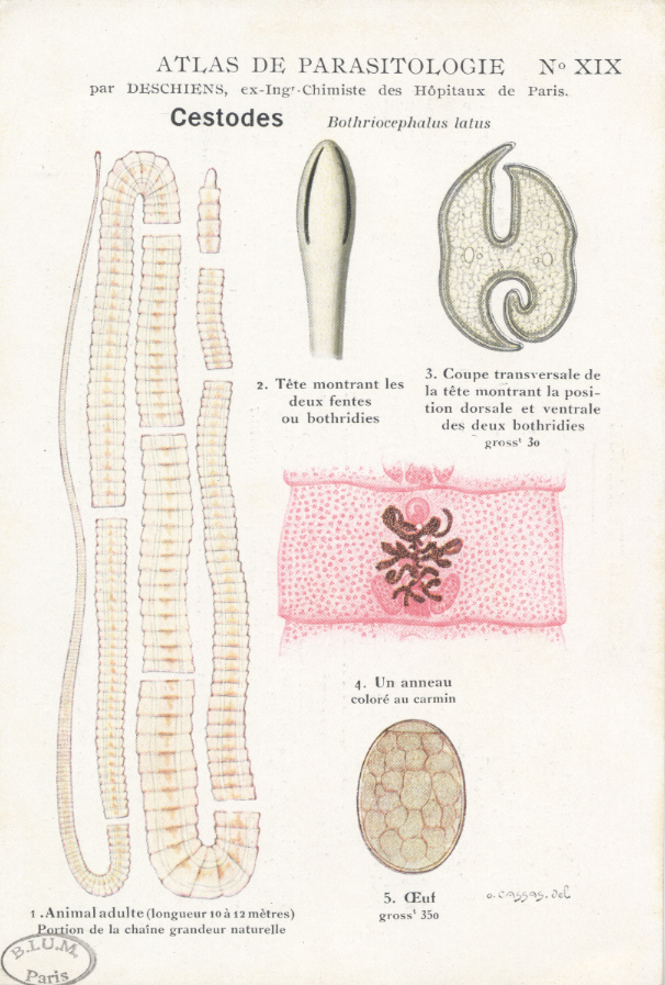 Diphyllobothrium latum